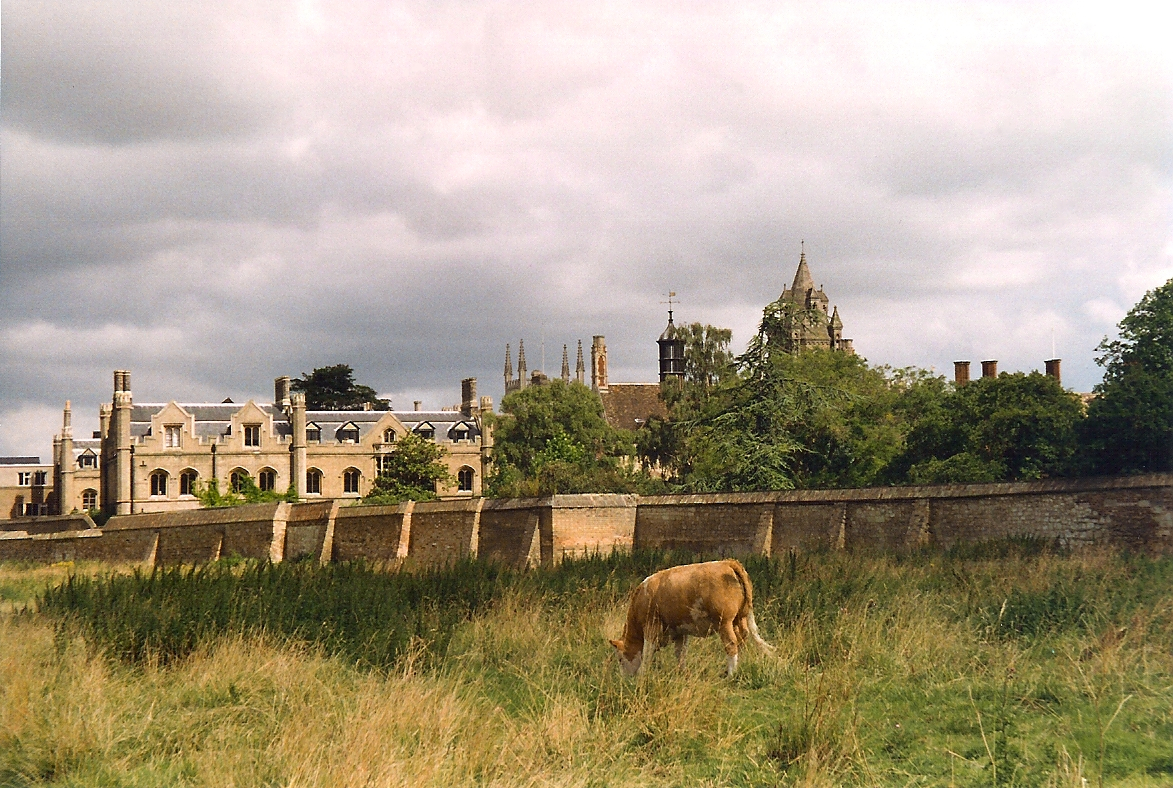 The rear of Peterhouse, Cambridge, UK, from Coe Fen. Taken c. 1994 on film.